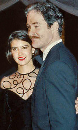 Oscar-winner Kevin Kline and his wife Phoebe Cates at the Governor's Ball party after the 1989 Academy Awards, March 29, 1989 - Permission granted to copy, publish, broadcast or post but please credit "photo by Alan Light" if you can (cropped)